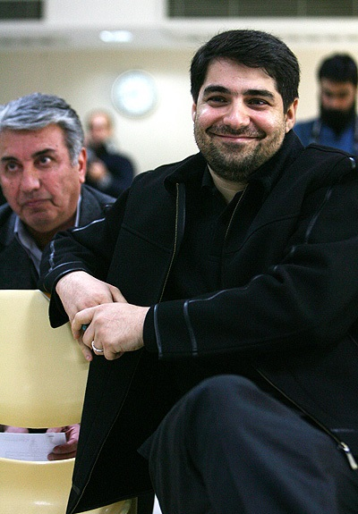 Shahram Jazayeri at District court - 2 January 2007. for more in Persian, Farsnews archive